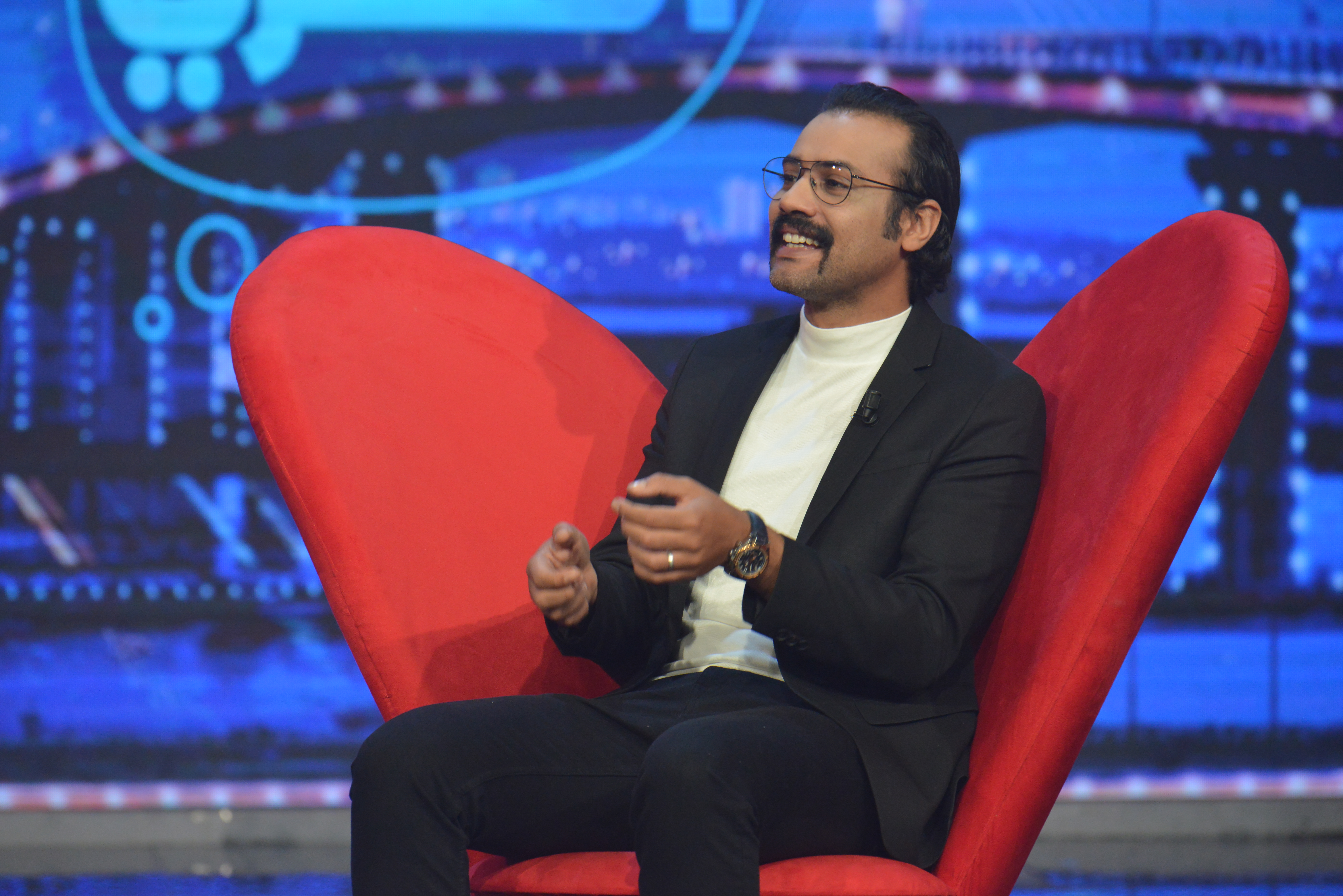 Bassem Hamraoui TV program Fekret Sami Fehri